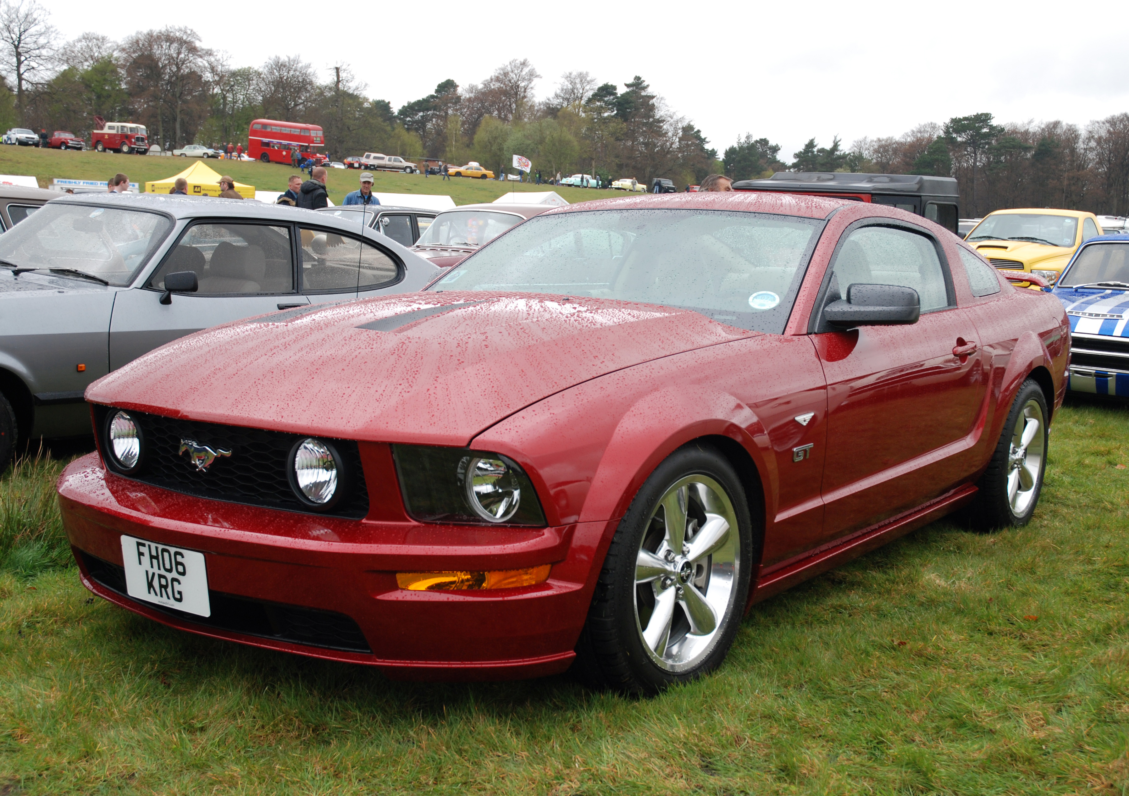 getting back to the "classic" shape...Wheels Day,Apr 2009